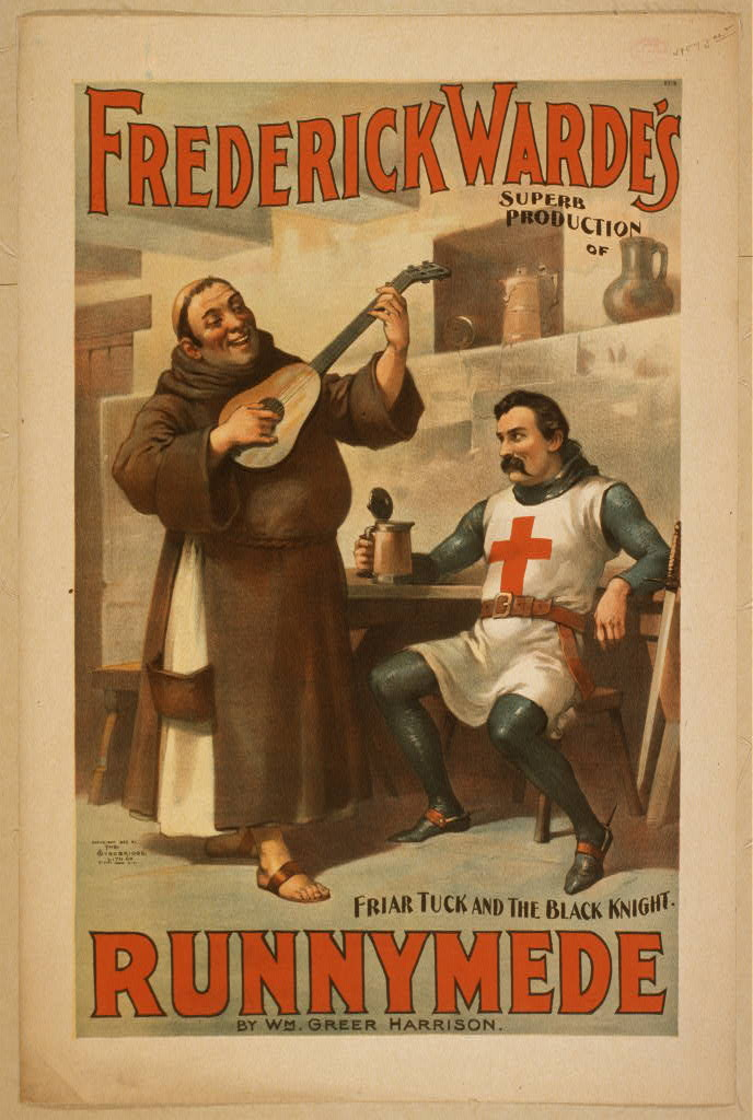 TITLE: Frederick Warde's superb production of Runnymede by Wm. Greer Harrison. CALL NUMBER: POS - TH - 1895 .R86, no. 1 (C size) [P&P] REPRODUCTION NUMBER: _ _ _ _ _ RIGHTS INFORMATION: No known restrictions on publication. MEDIUM: 1 print (poster) : lithograph, color ; 77 x 51 cm. CREATED/PUBLISHED: Cinti ; N.Y. : Strobridge Lith. Co., c1895. CREATOR: Strobridge & Co. Lith. TITLE: Frederick Warde's superb production of Runnymede by Wm. Greer Harrison. CALL NUMBER: POS - TH - 1895 .R86, no. 1 (C size) [P&P] REPRODUCTION NUMBER: _ _ _ _ _ RIGHTS INFORMATION: No known restrictions on publication. MEDIUM: 1 print (poster) : lithograph, color ; 77 x 51 cm. CREATED/PUBLISHED: Cinti ; N.Y. : Strobridge Lith. Co., c1895. CREATOR: Strobridge & Co. Lith. TITLE: Frederick Warde's superb production of Runnymede by Wm. Greer Harrison. CALL NUMBER: POS - TH - 1895 .R86, no. 1 (C size) [P&P] REPRODUCTION NUMBER: _ _ _ _ _ RIGHTS INFORMATION: No known restrictions on publication. MEDIUM: 1 print (poster) : lithograph, color ; 77 x 51 cm. CREATED/PUBLISHED: Cinti ; N.Y. : Strobridge Lith. Co., c1895. Advertisement poster titled "Frederick Warde's superb production of Runnymede by Wm. Greer Harrison" No known restrictions on publication. Published by Strobridge Lith. Co., c1895.